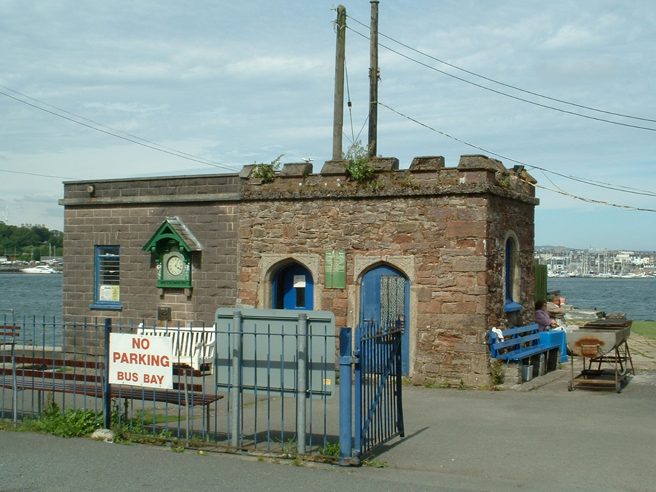 Cremyll Ferry ticket office, Cremyll, Cornwall. Taken by Necrothesp, 7 July 2005.